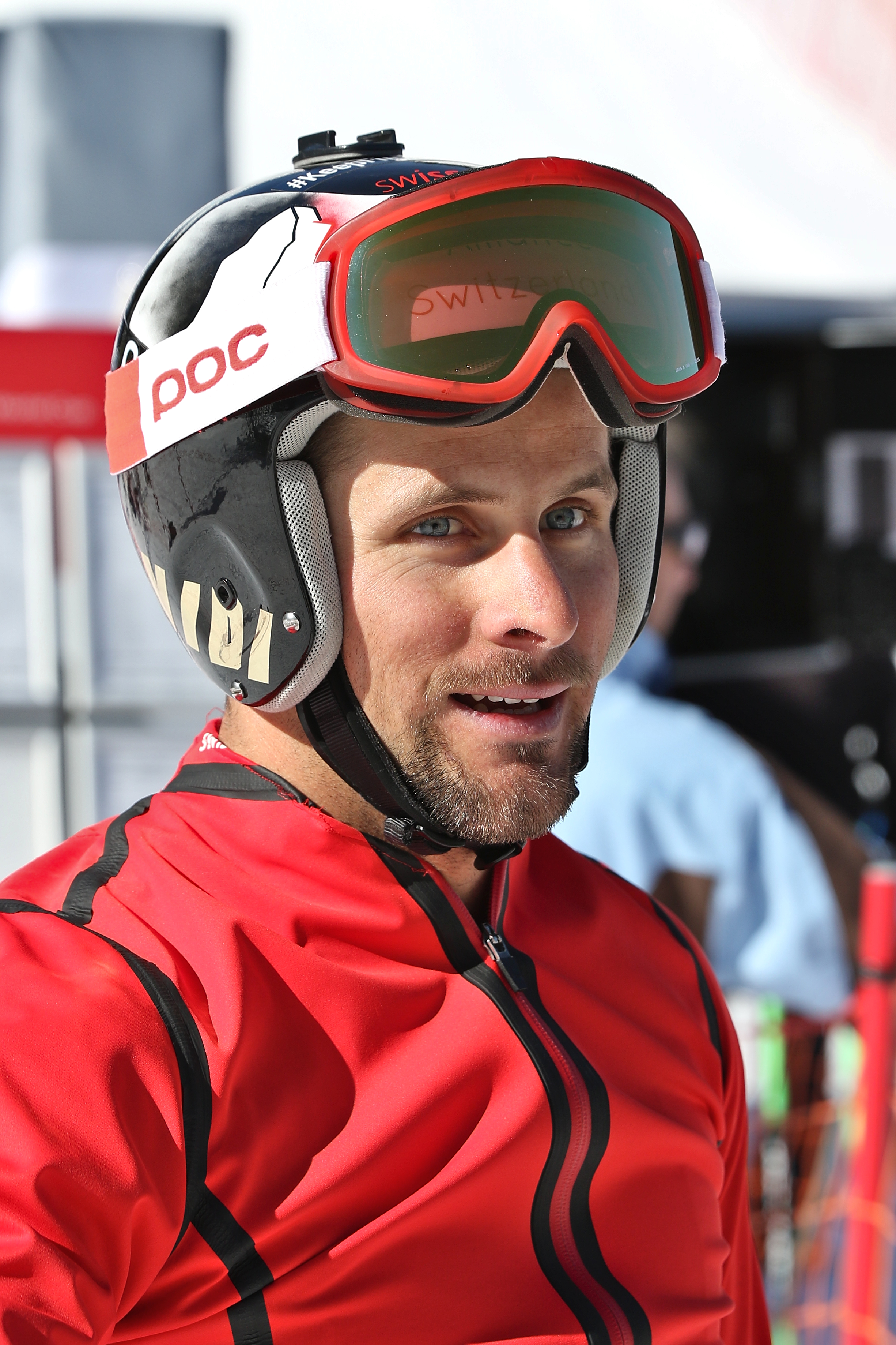 FIS Ski Cross World Cup 2015 - Megève - 20150313 - Armin Niederer